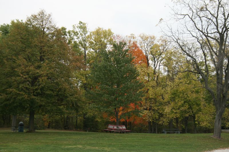 Eagle Creek Park in the Fall.